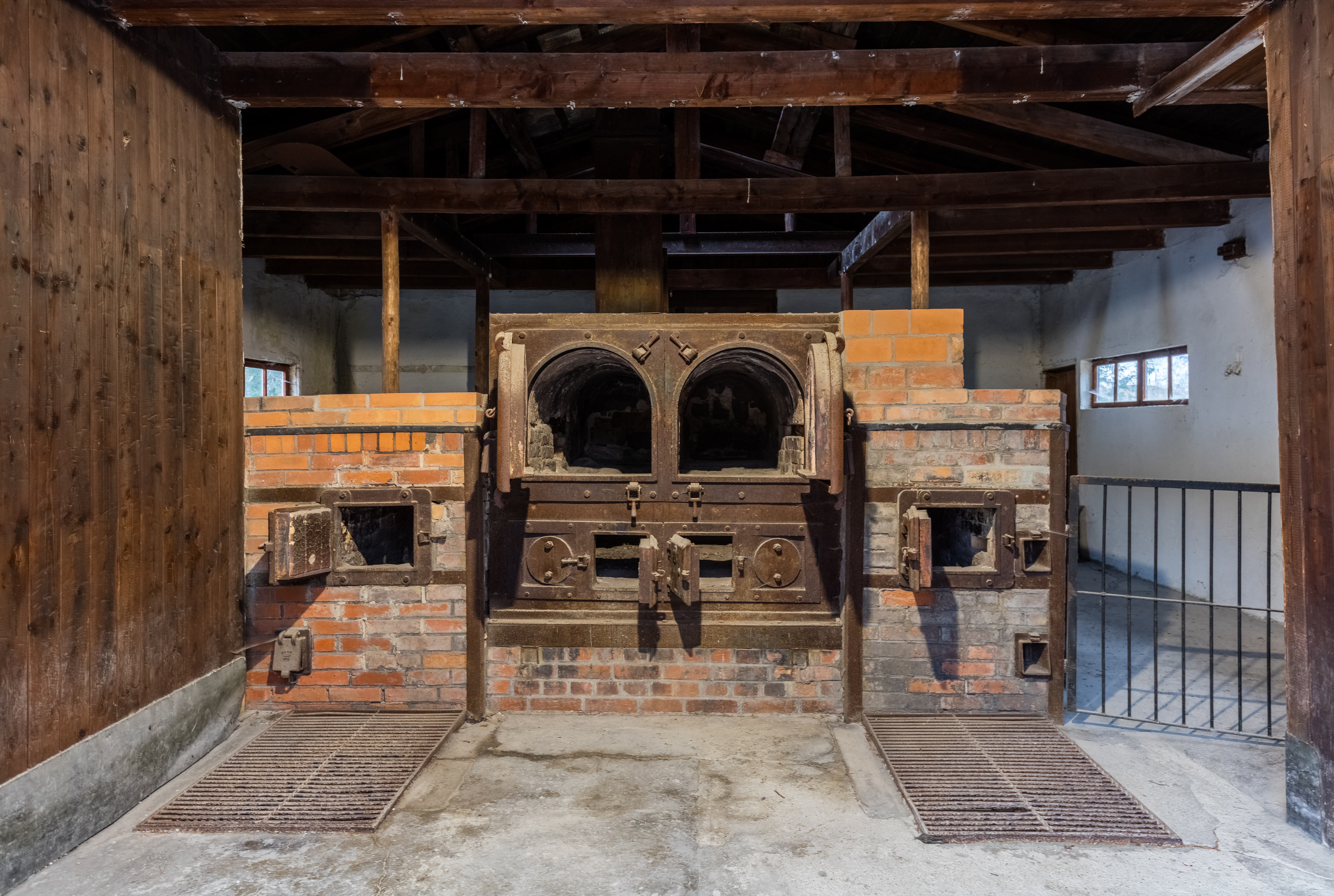 Old crematorium, concentration camp of Dachau, Germany